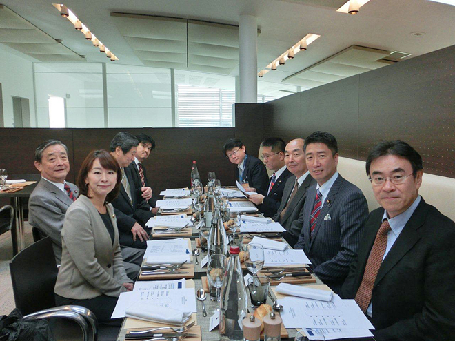 Members of the Committee on Judicial Affairs, House of Representatives and Kazuo Kodama, Ambassador to the Organisation for Economic Co-operation and Development, talked with Rintarō Tamaki, Deputy Secretary-General of the Organisation for Economic Co-operation and Development, at the Headquarters of the Organisation for Economic Co-operation and Development in Paris Commune, Paris Department, Île-de-France Region on October 12, 2015. (For terms of use, see 法的事項 ｜ 外務省.)